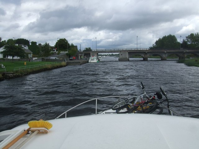 Bridge over the River Shannon at Lanesborough